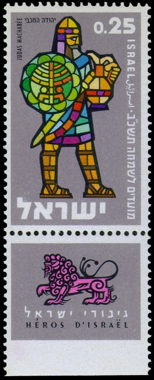 Joyous Festivals 5722 stamp - 0.25 Israeli lira - Heroes of Israel: Judas Maccabeaus.